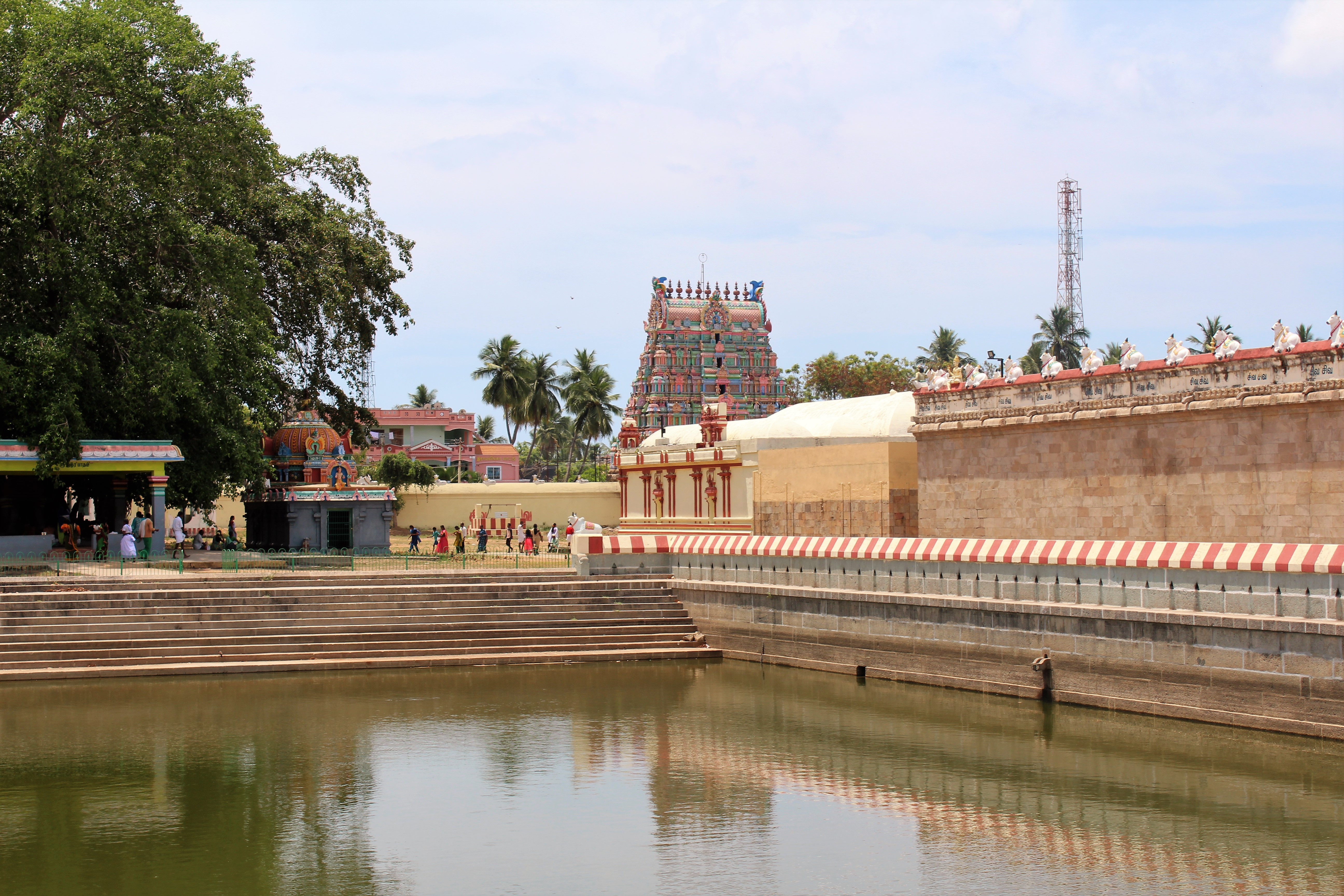 Thiruvengadu swetharanyeswarar temple